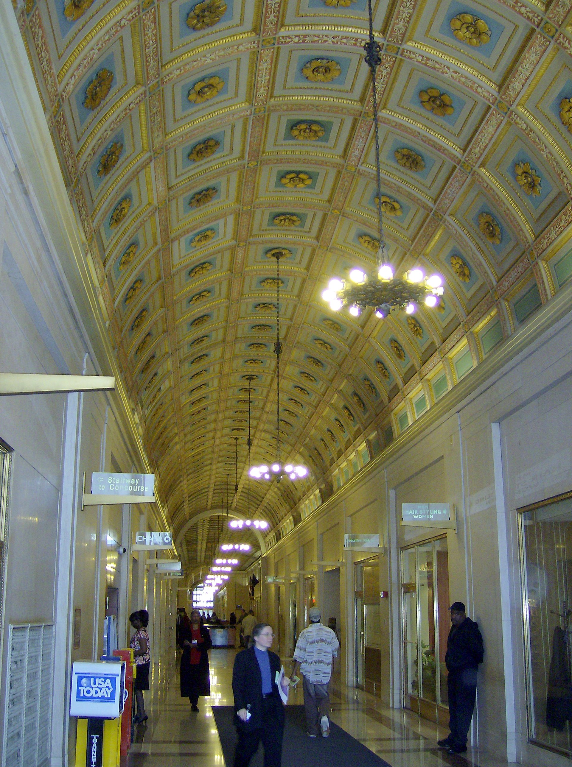 Cadillac Place